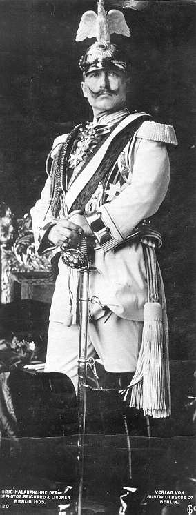 Wilhelm II. on picture postcard, 1905